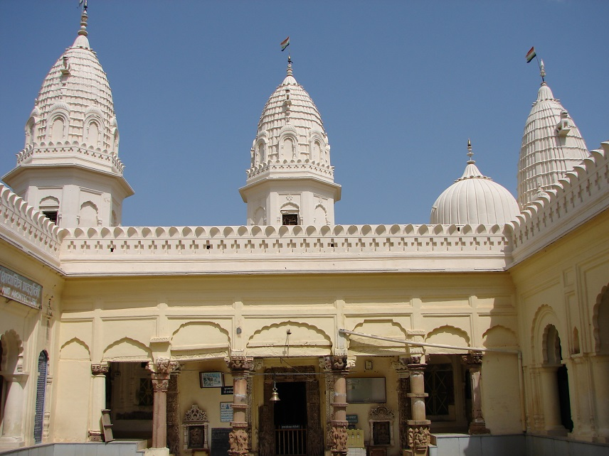 Santinatha Temple